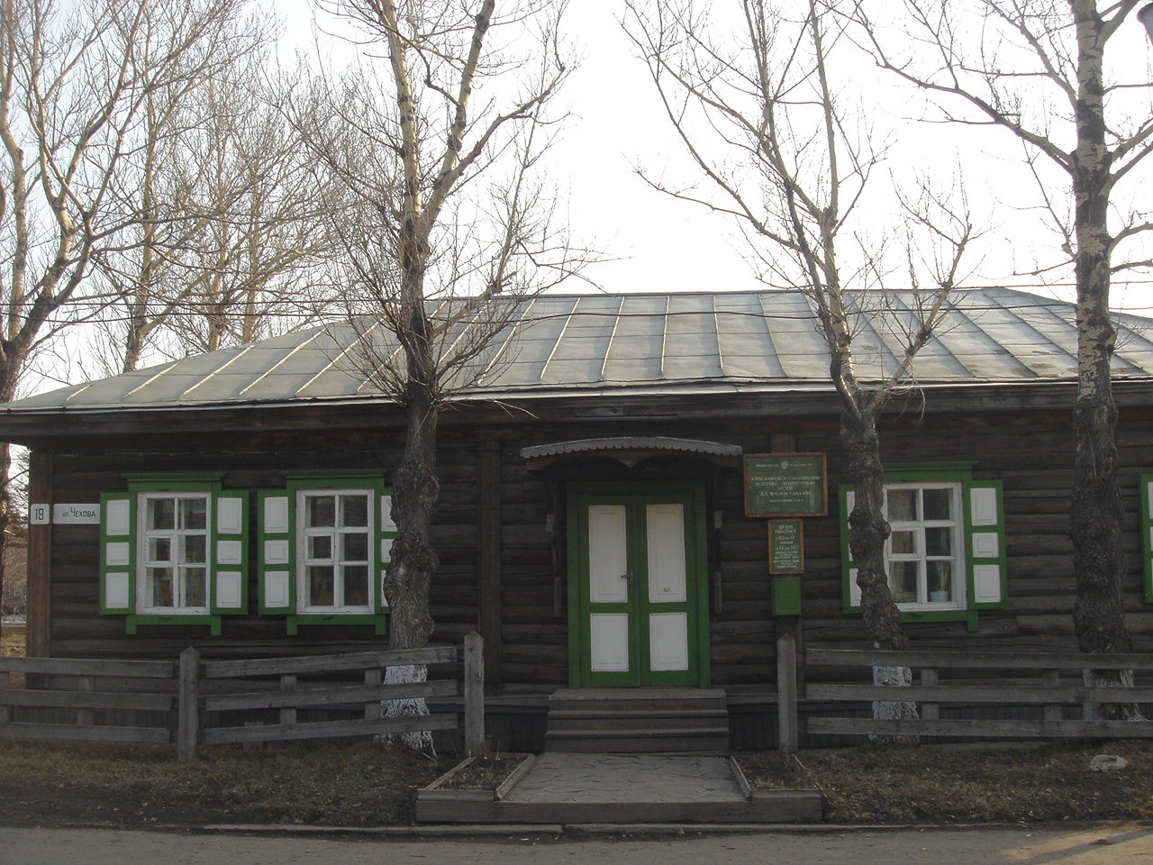 Anton Chekhov museum Chekhova Ulitsa (street), Alexandrovsk-Sakhalinsky, Sakhalin Russian Federation. The house where he stayed in Sakhalin during 1890.